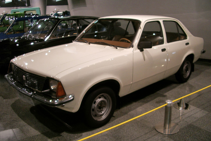 1982 Saehan Maepsy (새한 맵시) at the Samsung Transportation Museum, Yongin-Si, South Korea. Camera: Pentax Optio S50 License on Flickr (2011-01-18): CC-BY-SA-2.0 Flickr tags: 2008, Korea, Everland, Samsung Transportation Museum, Daewoo, Opel, Isuzu